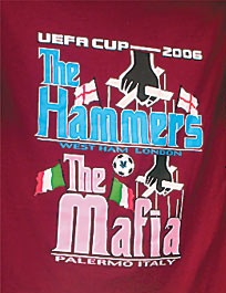 T Shirt produced for West Ham's UEFA Cup tie with Palermo, 2006